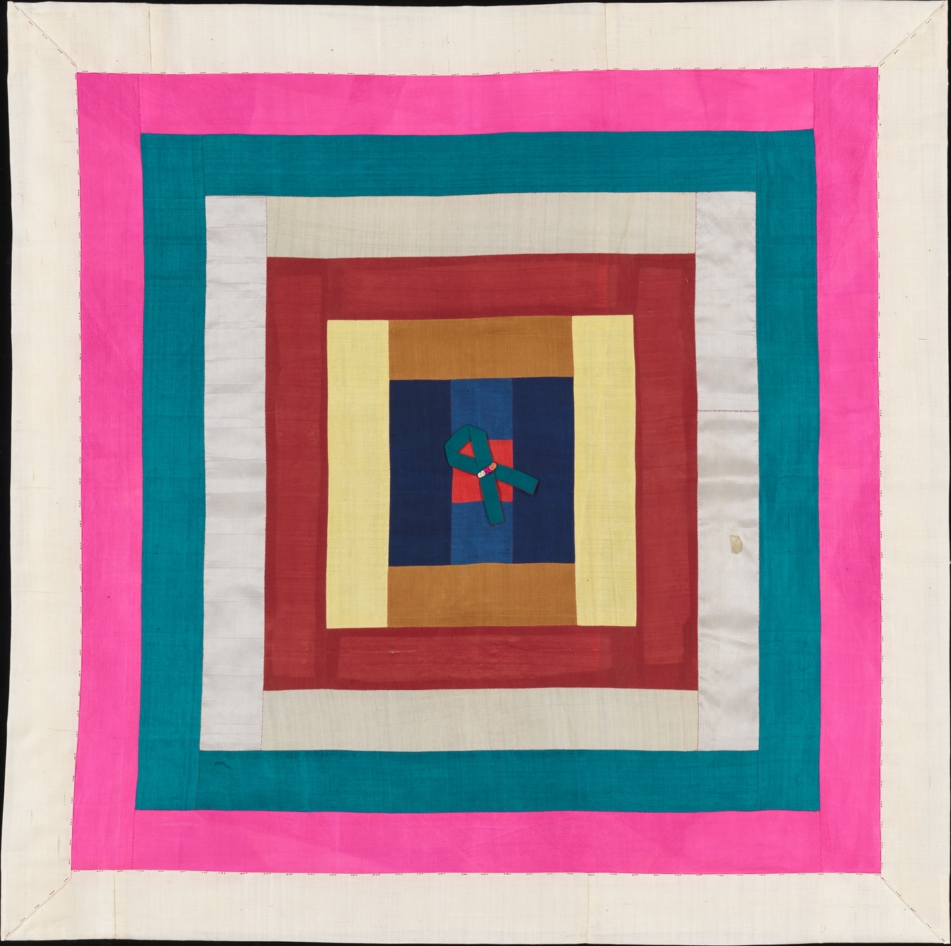 Patchwork Bojagi (Wrapping Cloth); Korea; Textiles